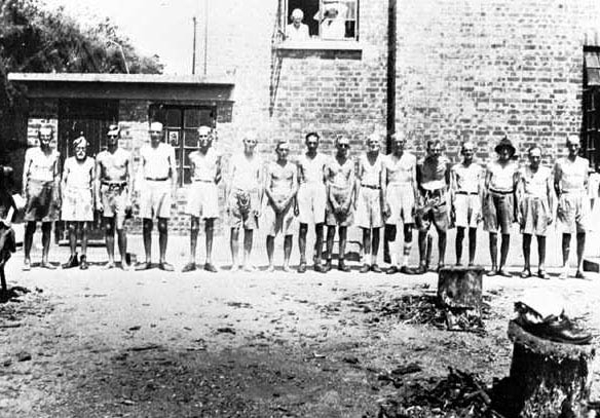 Stanley (southern end of Hong Kong Island), Internment Camp in the time of the japanese occupation of Hong Kong in the World War II.